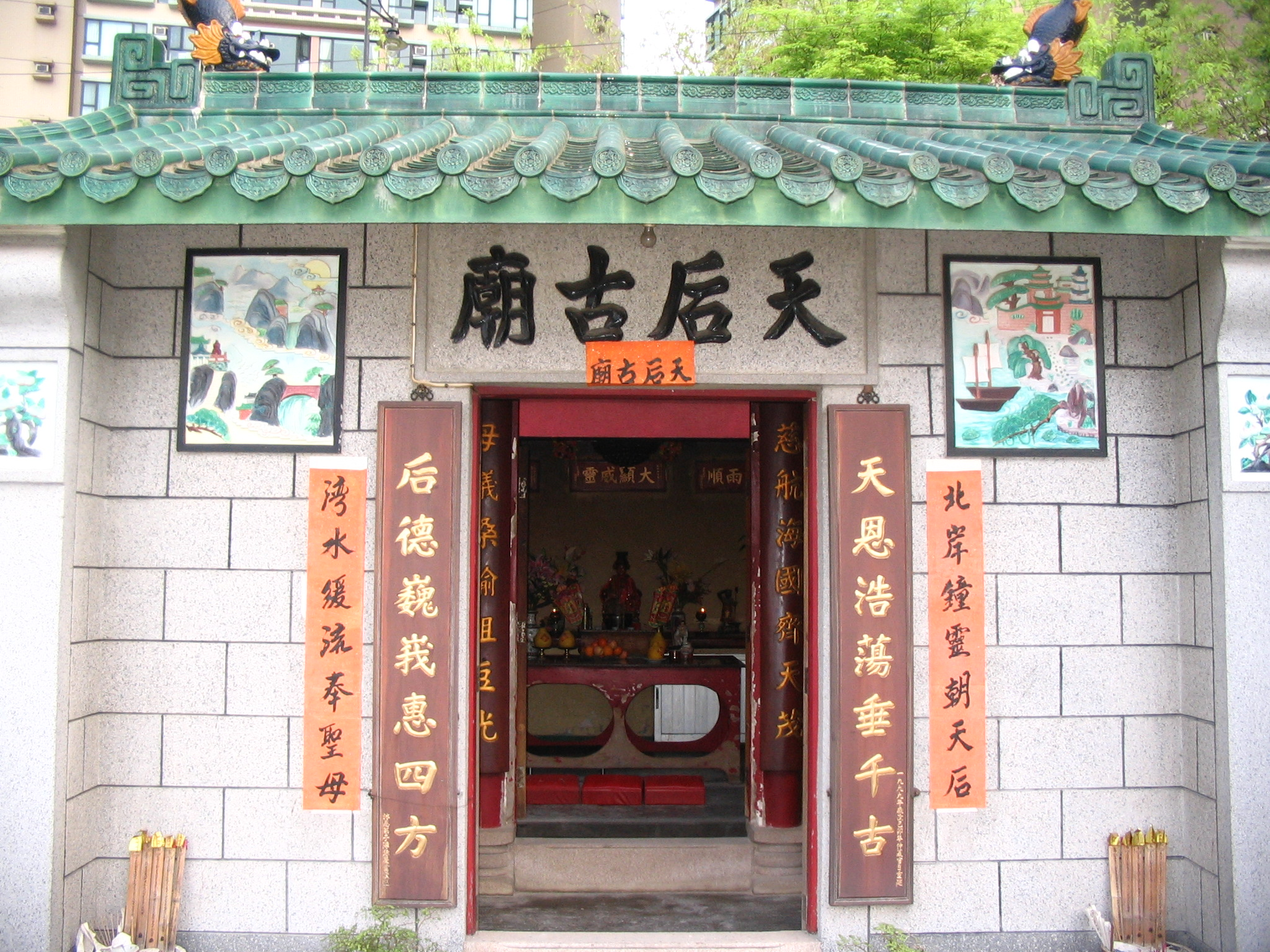 Photo of Tin Hau Temple, Pak Wan, Ma Wan